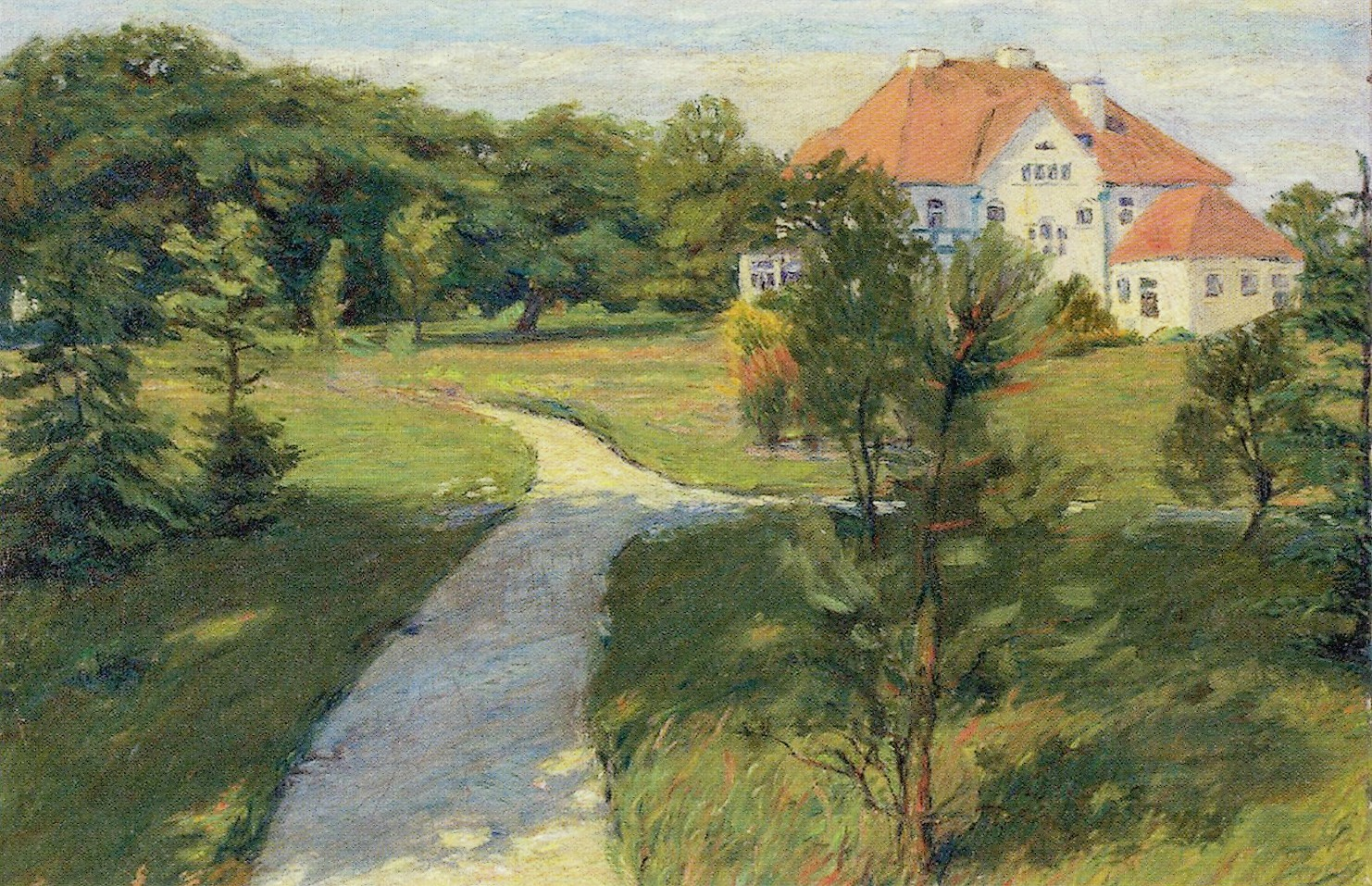 The parental home by August Haake about 1910 in Rockwinkel near Bremen in Germany.